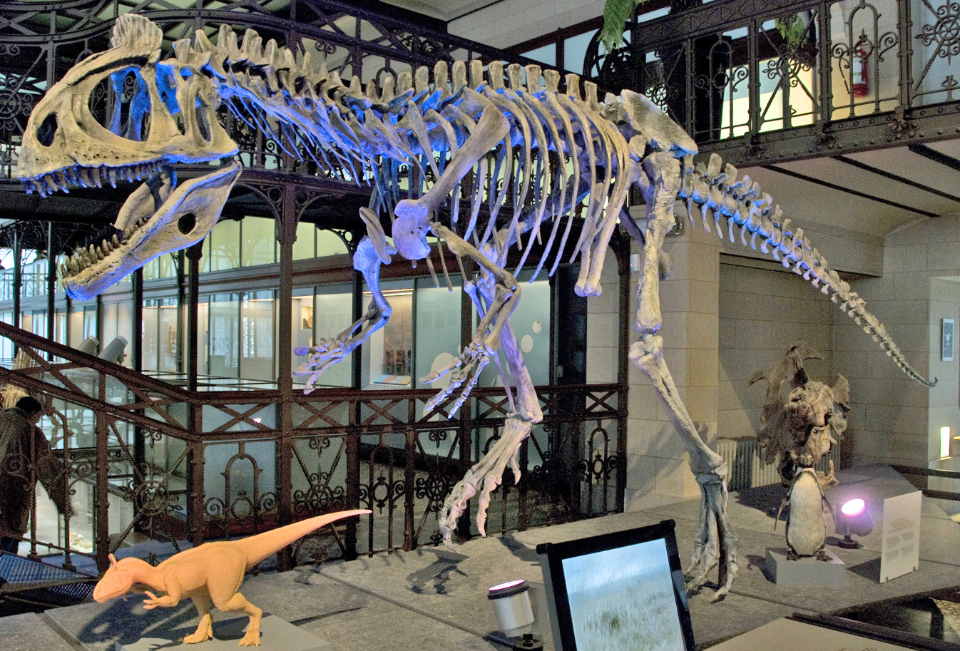 Replica of Cryolophosaurus at Brussels